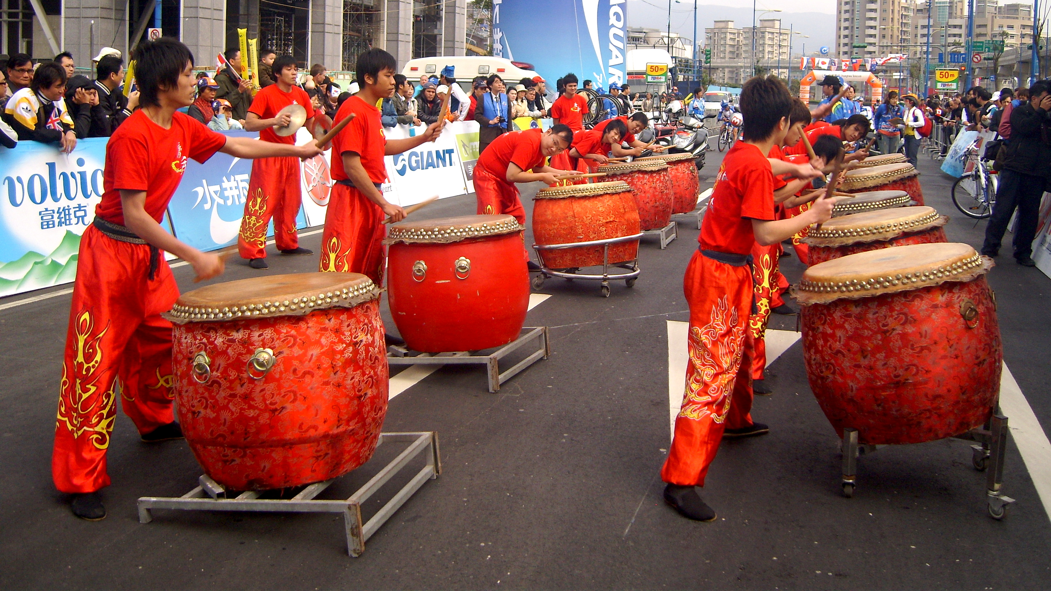 2008 Tour de Taiwan TWTC Nangang Stage: Opening Drum Performance.